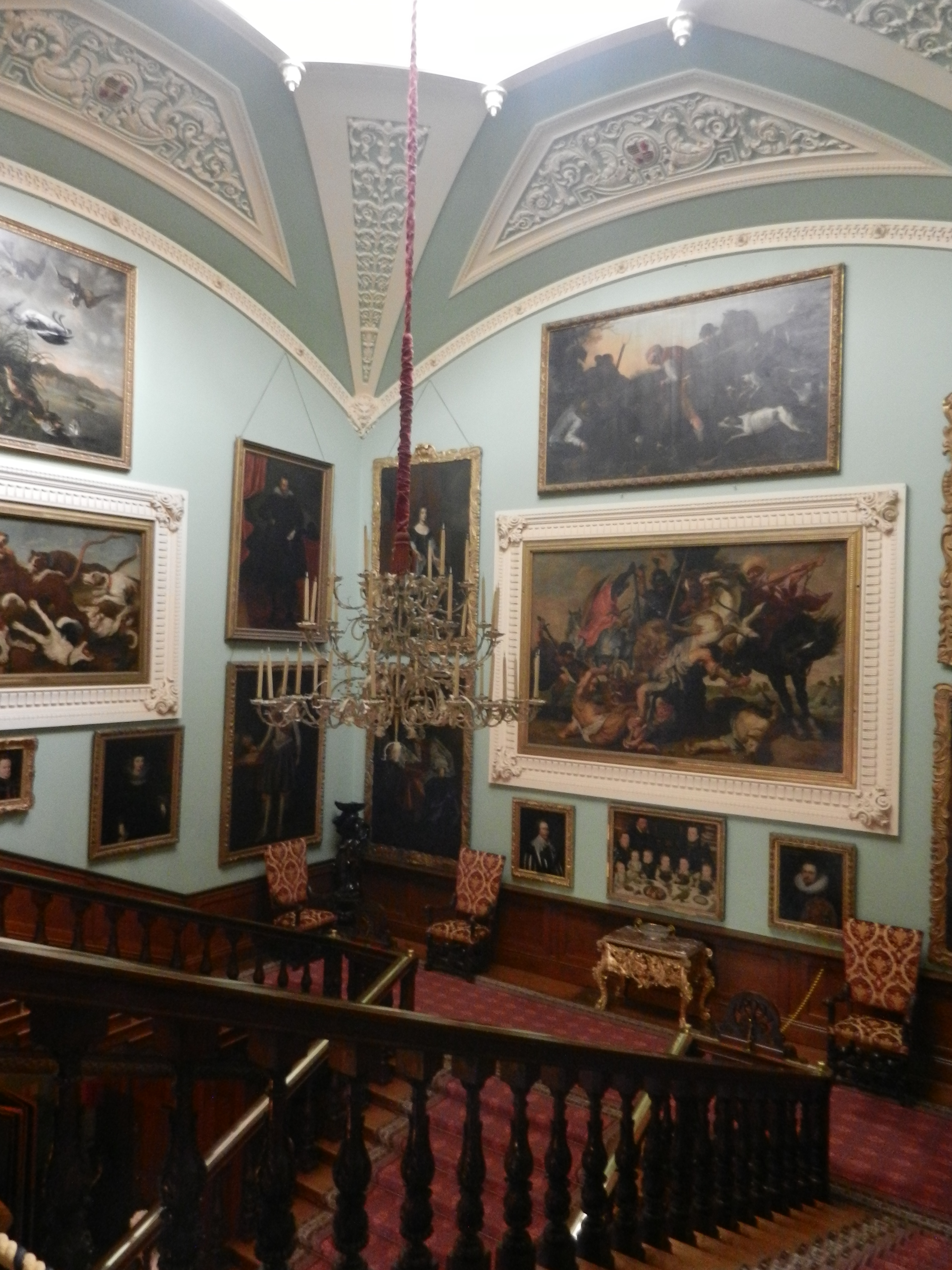 The interior of the mansion Longleat House - staircase